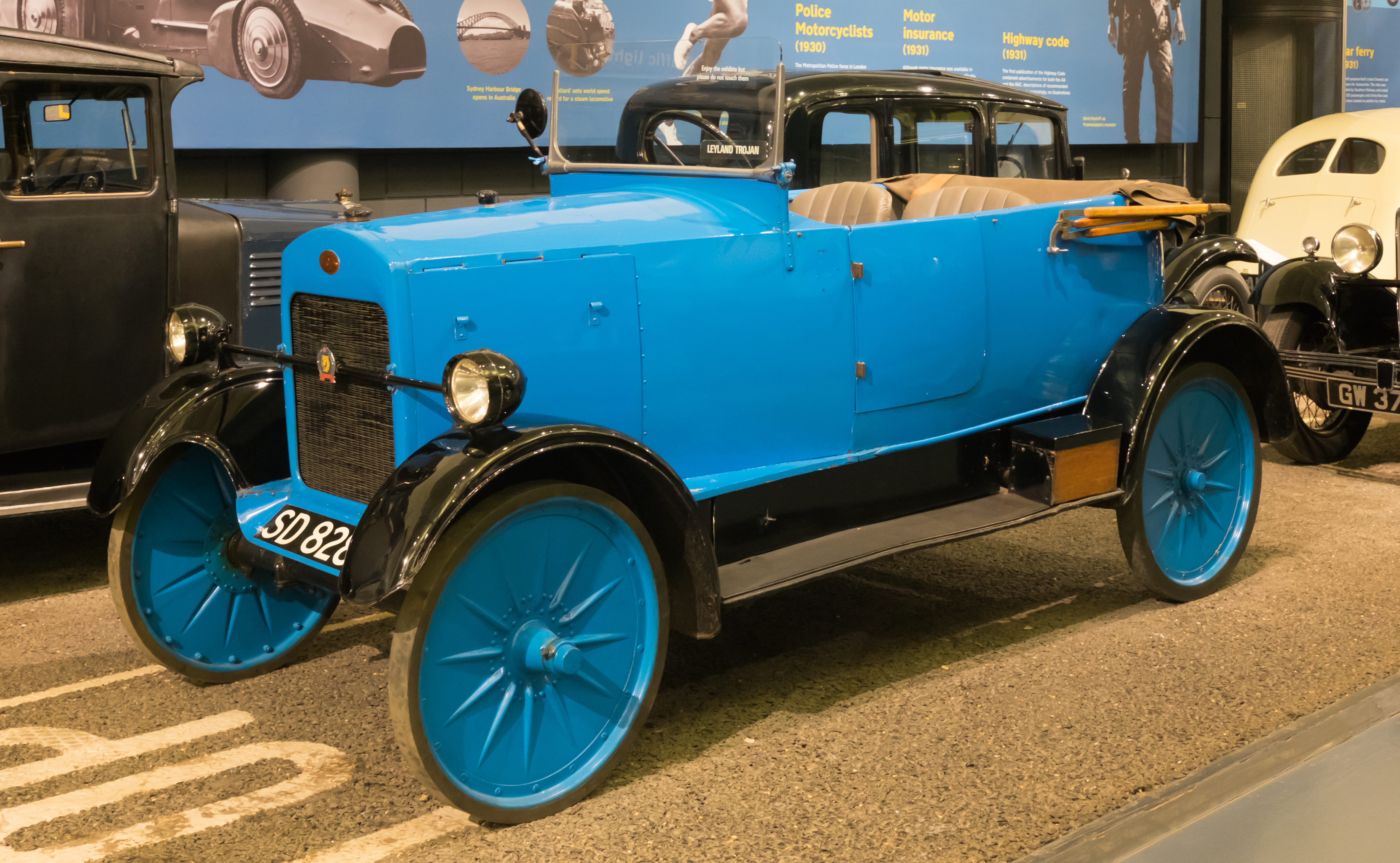 A 1924 Leyland Trojan tourer. This car is now kept at the British Motor Museum, Gaydon, UK.